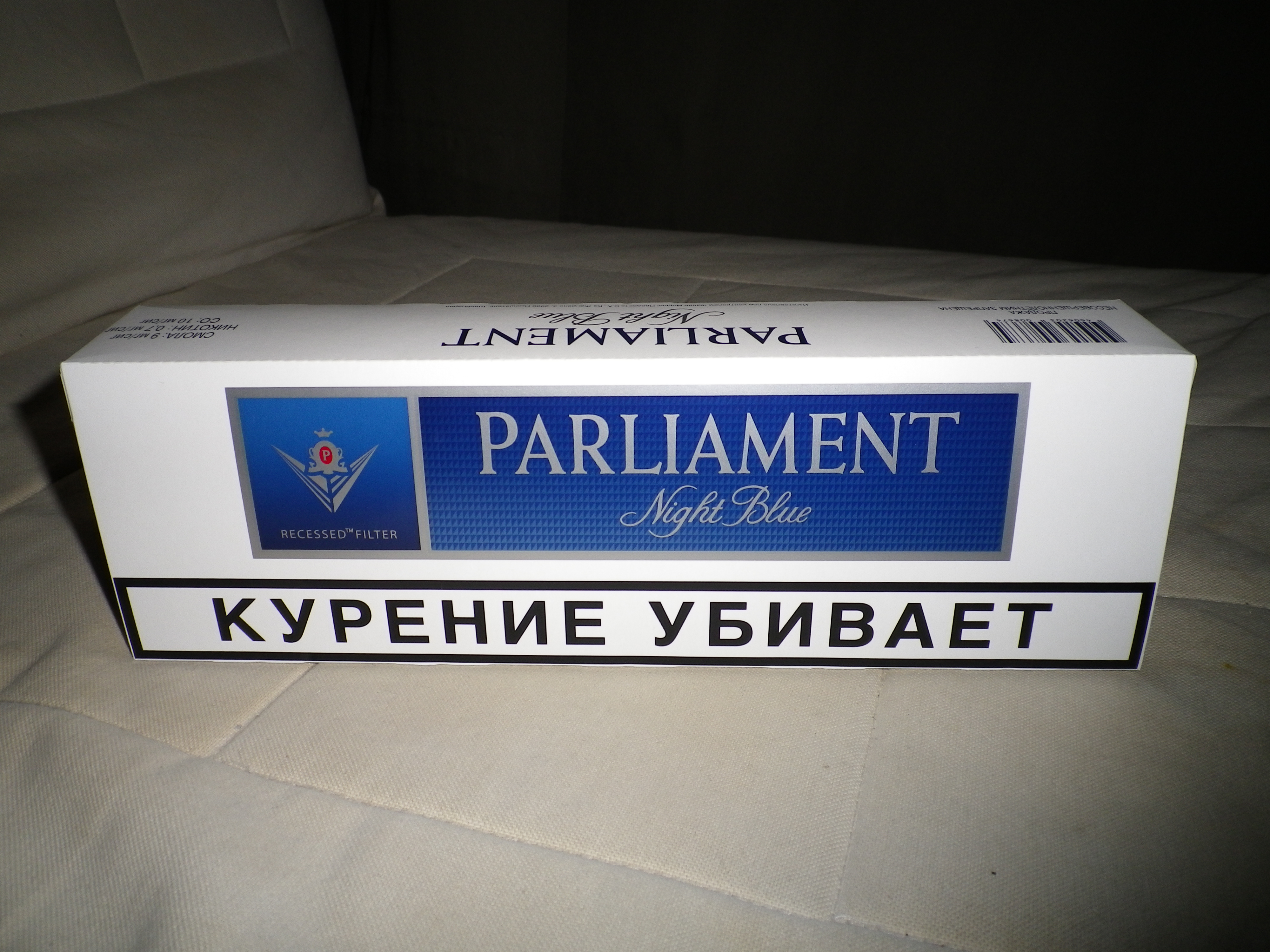 Block of Parliament Night Blue cigarettes(russian edition) Pentax Optio H90